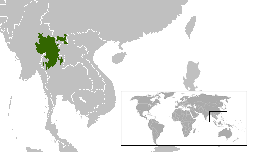 Location of the former kingdom of Lanna (Lan Na) within today´s Thailand and Myanmar, extension during King Tilok´s reign